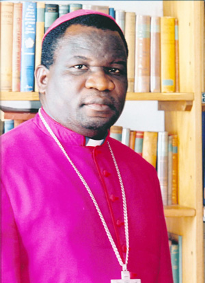 Bishop